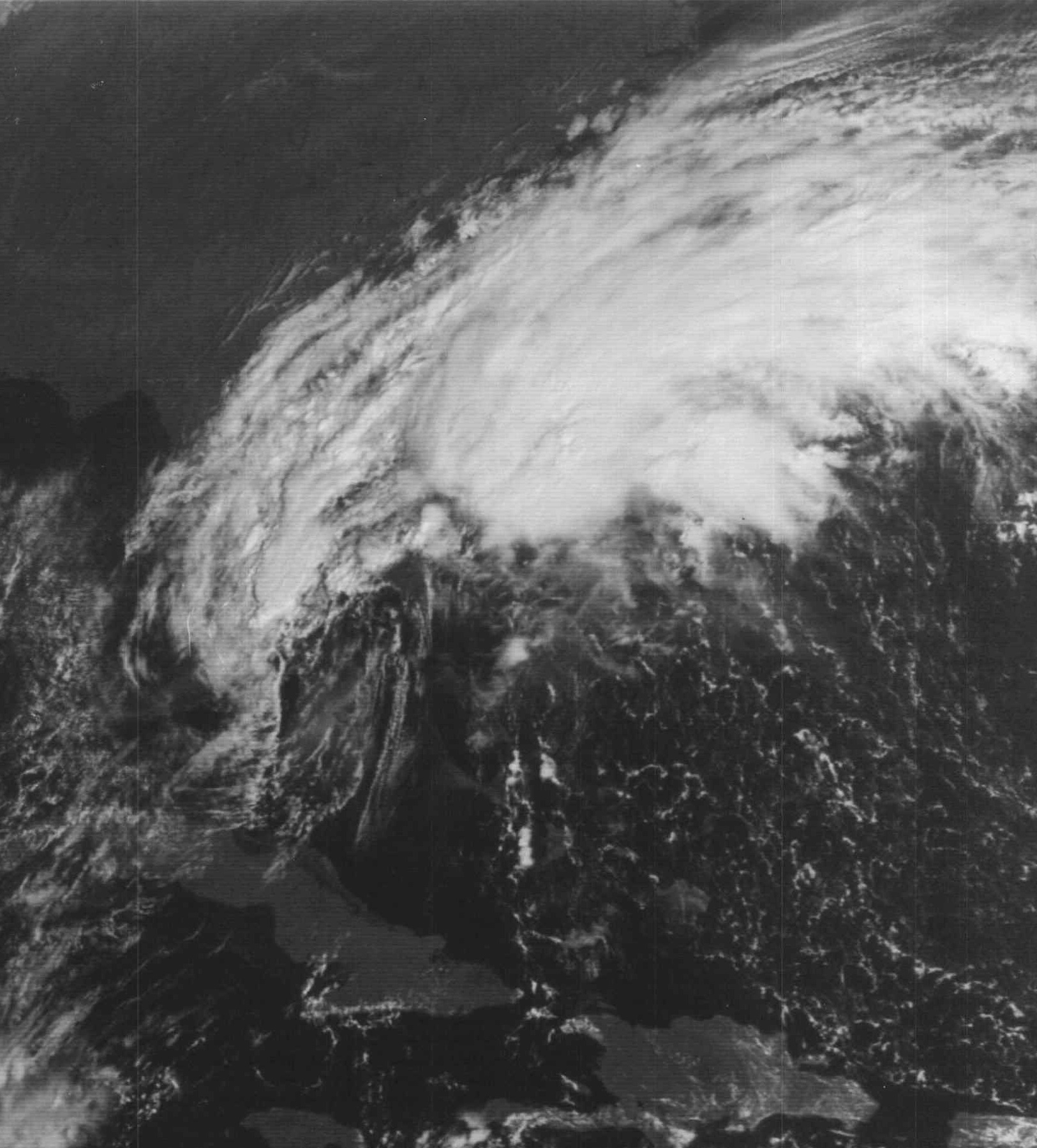 Satellite image of Subtropical Storm Four in 1974 to the east of Florida